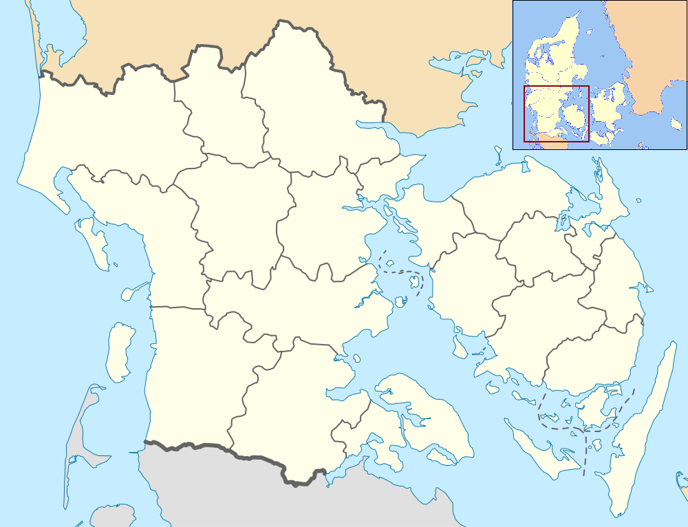 Location map of the Region of Southern Denmark (Syddanmark) with window locator showing regional position in Denmark.